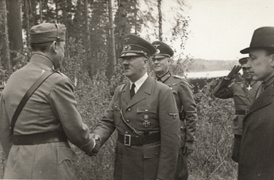 Carl Gustaf Emil Mannerheim, Adolf Hitler, Wilhelm Keitel and Risto Ryti in Finland on 4th June 1942